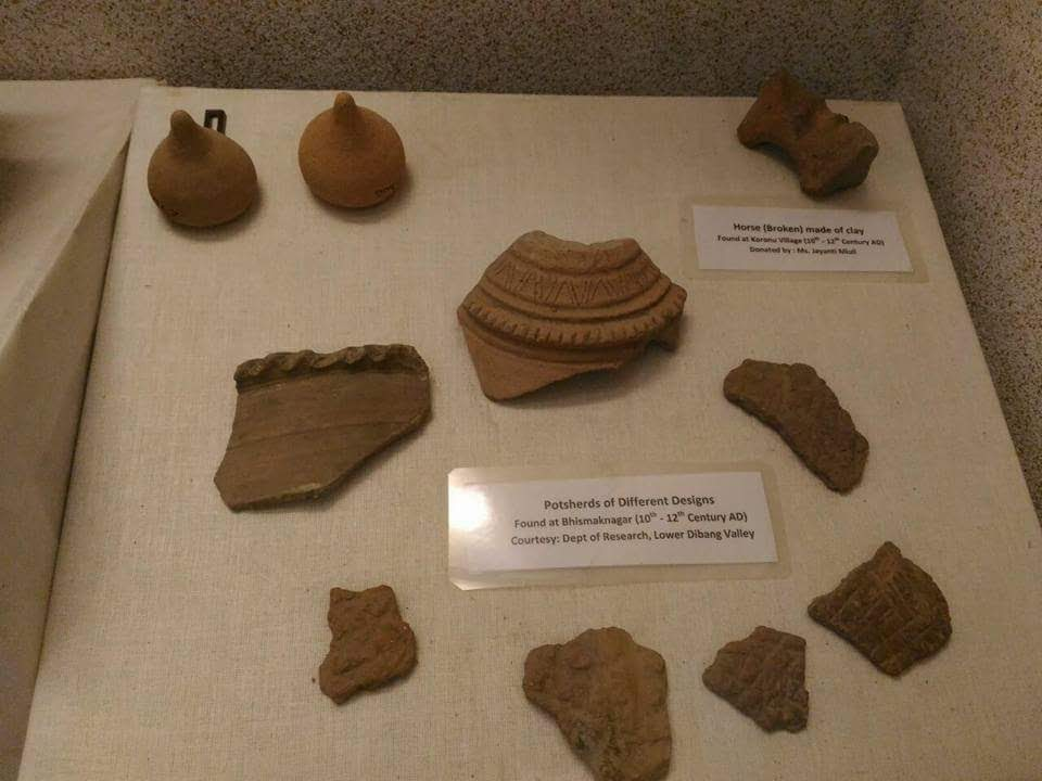 Potsherds found in Bhisnaknagar